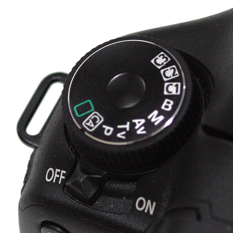 Canon EOS 7D, exposure mode dial.